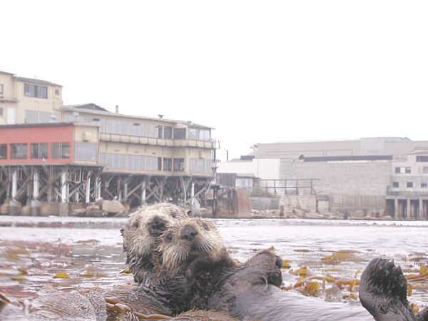 Sea Otters, mother and pup, near Cannery Row, Monterey, California.